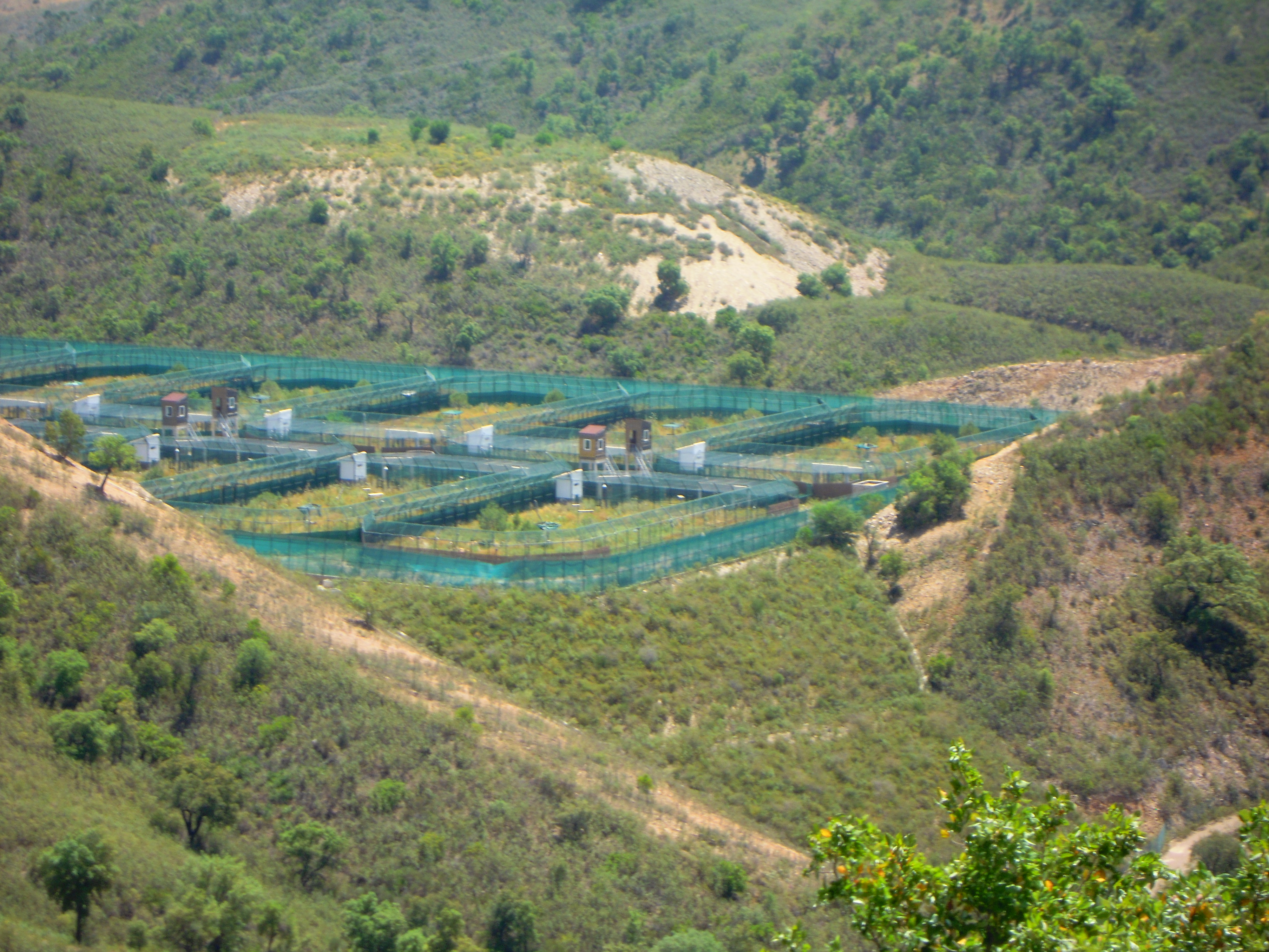 Iberian Lynx Breeding Centre near the village of Vale Fuzeiros. The (CNRLI) is on a hillside above the Arade River close to the Barragem (Dam) do Funcho. The centre is not open to the public but can be viewed from a hillside viewing platform constructed on a hill top overlooking the complex.